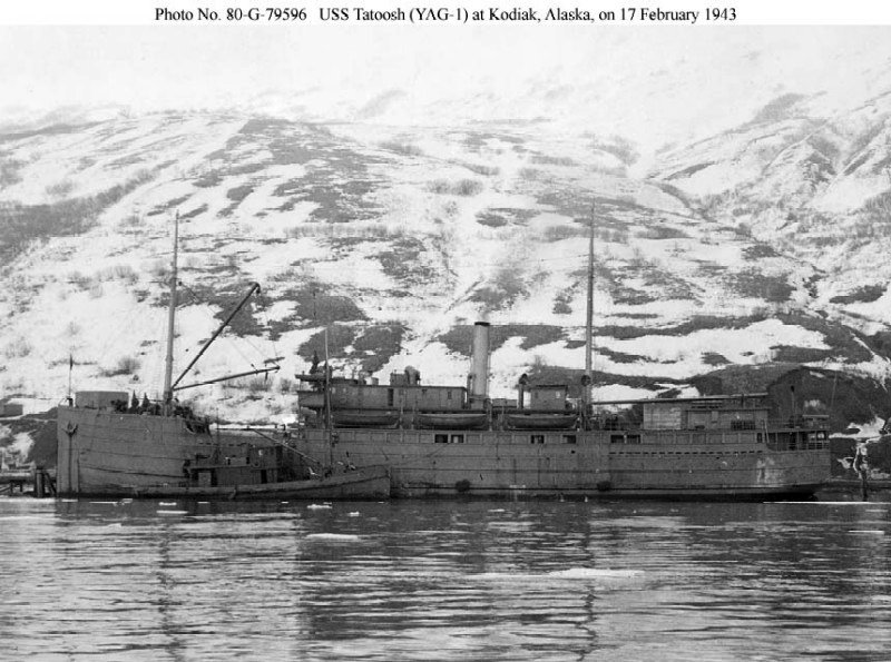 USS Tatoosh (YAG-1,) moored pierside, at Kodiak, Alaska, 17 February 1943. US National Archives photo # 80-G-79596